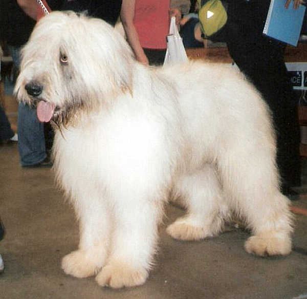 Ciobanesc Romanesc Mioritic, Romanian Mioritic Shepherd Dog, Romanian Sheepdog, Rumanian Sheepdog